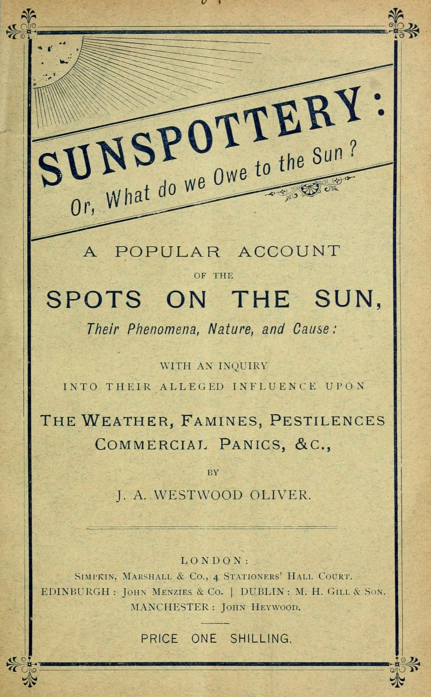 Cover of book Sunspottery, or, What do we owe to the sun? : a popular examination of the cycle theory of the weather, famines, pestilences, commercial panics, &c. by Oliver, J. A. Westwood